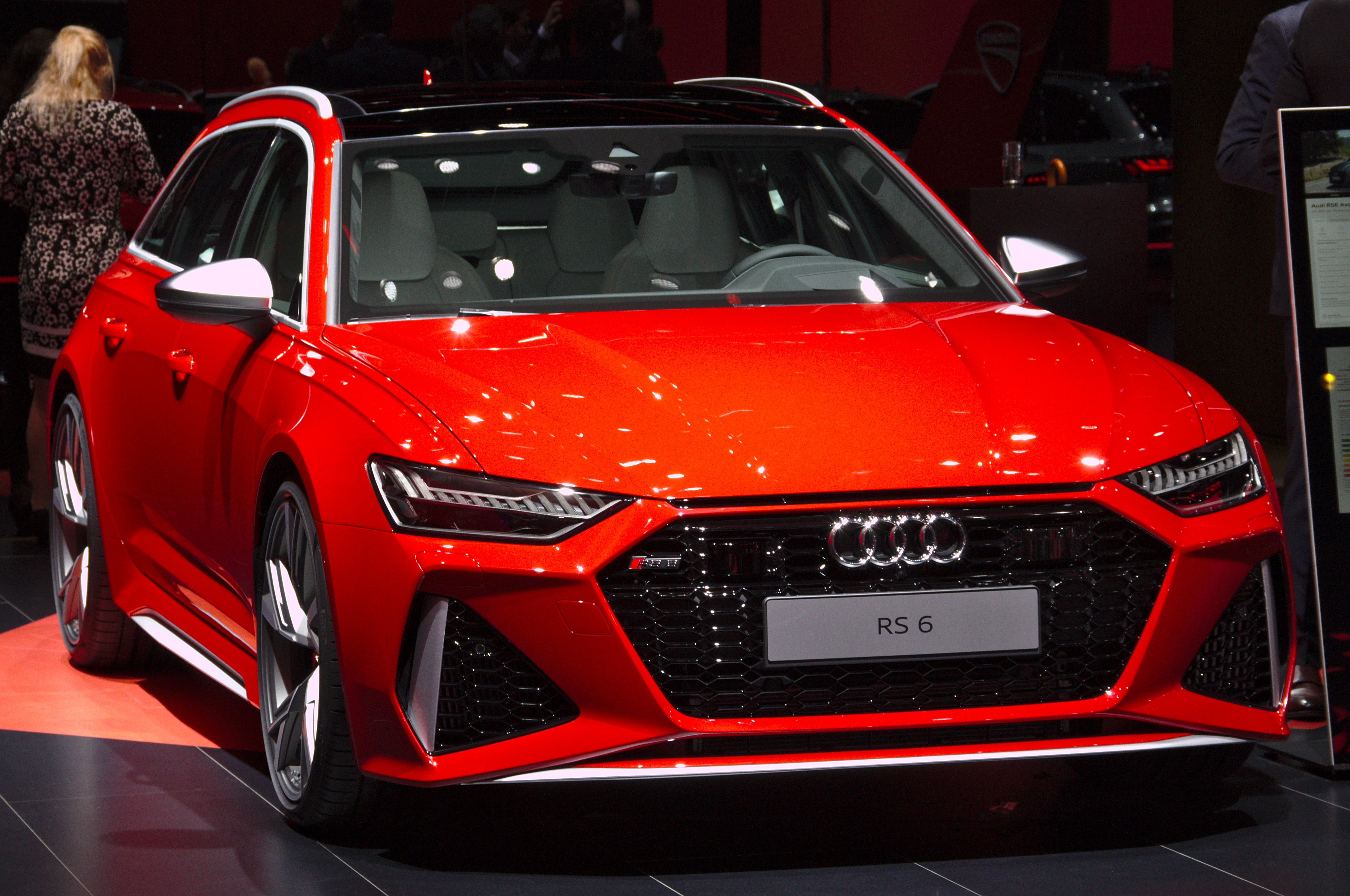 Audi_RS6_Avant_C8 at IAA 2019